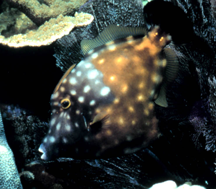 American whitespotted filefish (Cantherhines macrocerus); cropped and touched up image from NOAA: Image ID: reef2556, The Coral Kingdom Collection Photographer: Harold Hudson Credit: Florida Keys National Marine Sanctuary